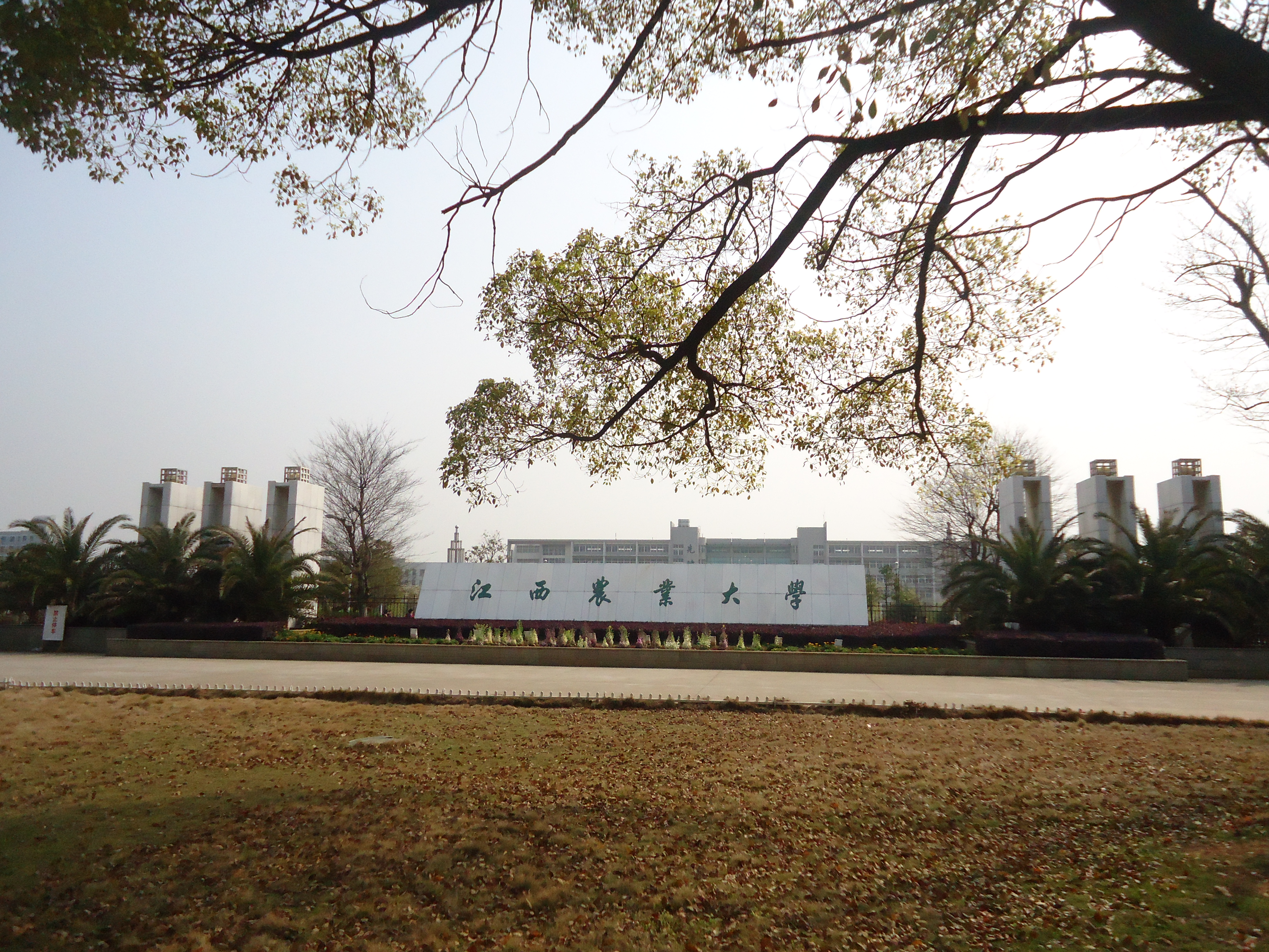 Gate of Jiangxi Agricultural University.